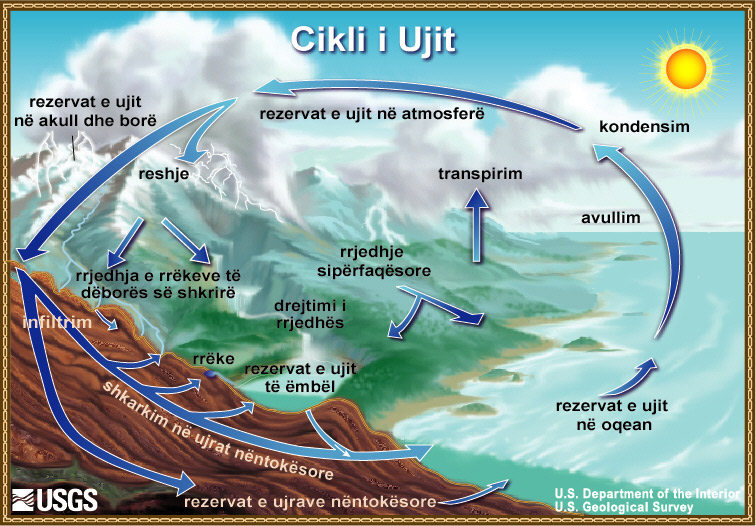 Water-Cycle Diagram (Albanian)